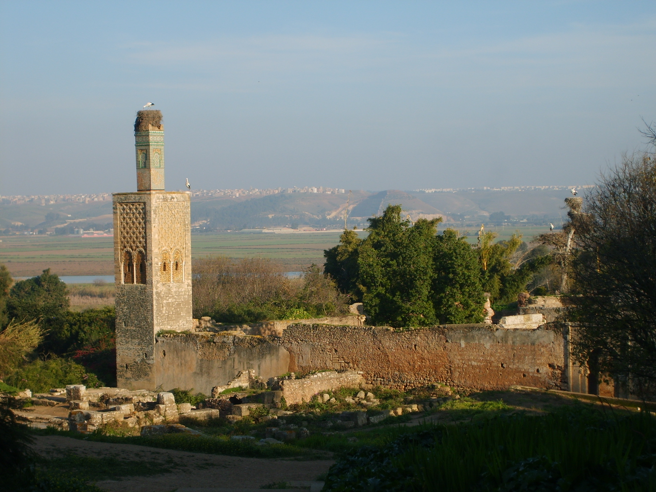 interior of Chellah ruins in Rabat, Morocco